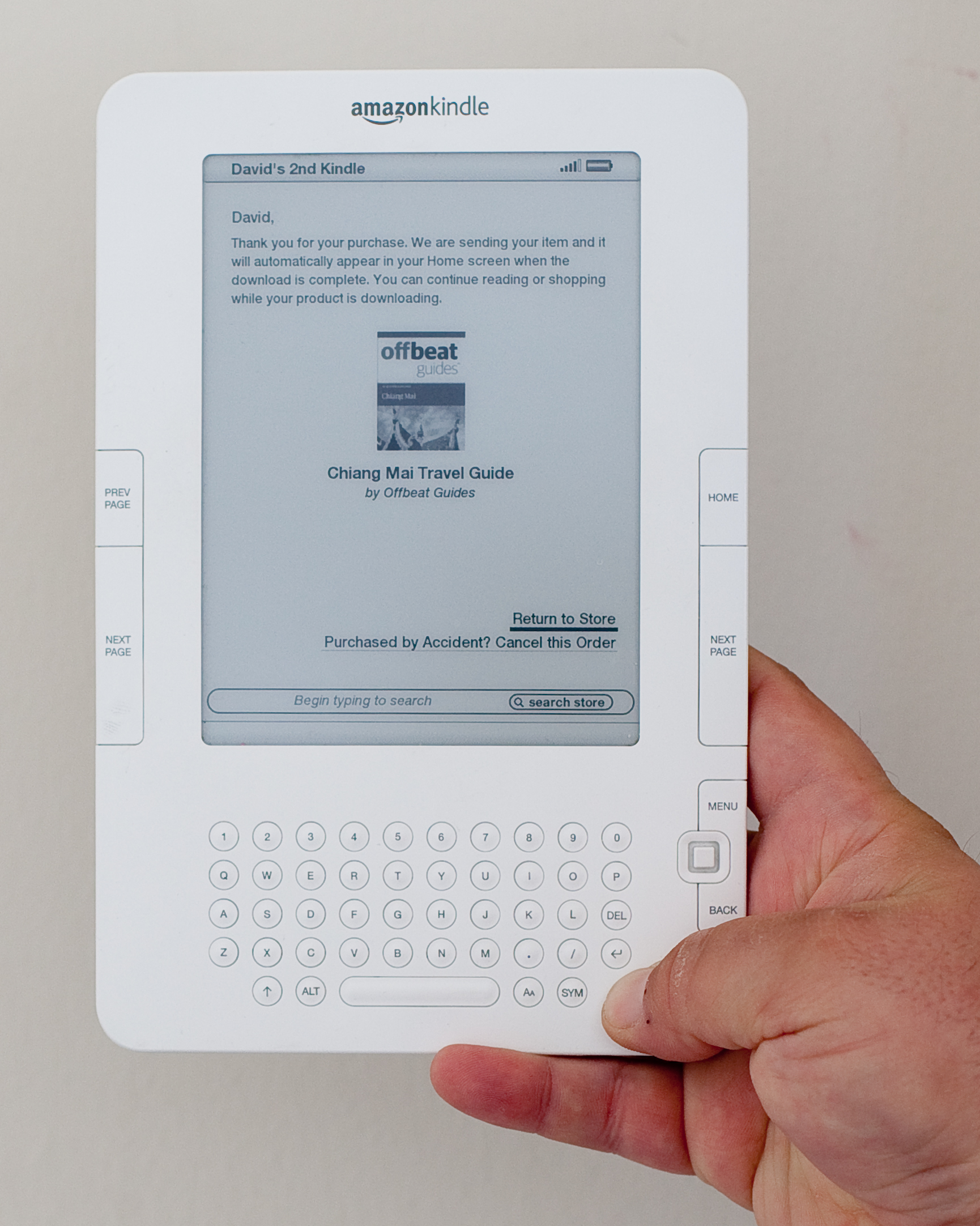 It downloads in a few seconds to the device, and it is also available on the iPhone.